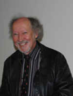 Chris Date at Oracle User Group Finland conference